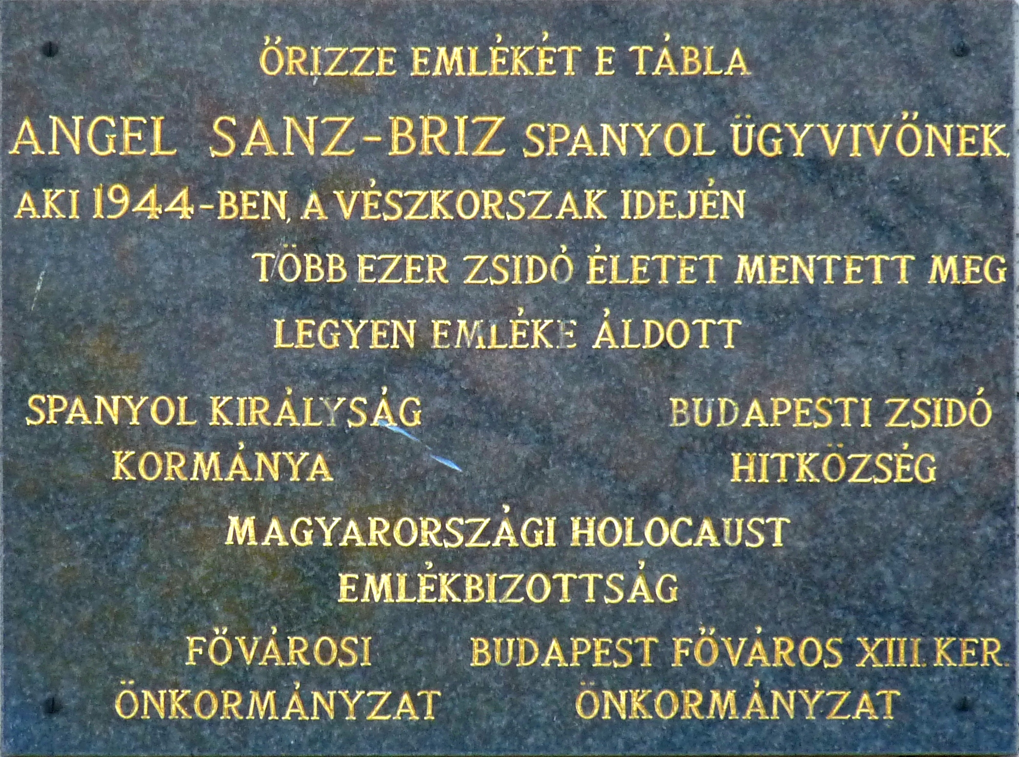 Commemorative plaque of Ángel Sanz Briz (1910-1980), Spanish diplomat who worked in Budapest in 1944 to rescue Jews from the Holocaust. (Budapest, District XIII, Stephen I of Hungary Park Nr 35).